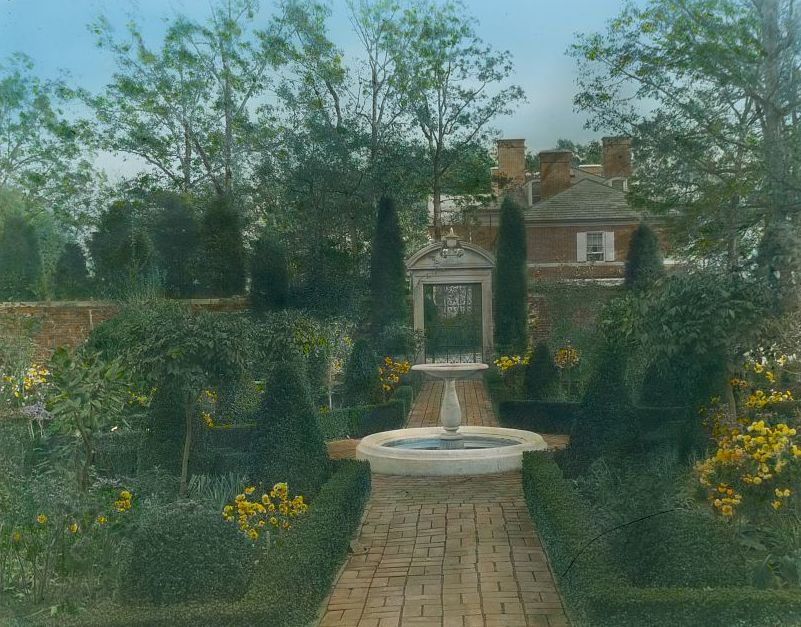 Johnston, Frances Benjamin,, 1864-1952,, photographer. ["The Causeway," James Parmelee house, 3100 Macomb Street, Washington, D.C. Fountain] [1919] 1 photograph : glass lantern slide, hand-colored ; 3.25 x 4 in. Notes: Site History. House Architecture: Charles Adams Platt, 1912. Landscape: Charles Adams Platt, overall plan, 1912 and Ellen Biddle Shipman, 1913. Associated Name: Alice Maury (Mrs. James) Parmelee. Today: House owned by Washington International School; woodland garden, added in 1927, open to the public as "Tregaron." Title, date, and subject information provided by Sam Watters, 2011. Forms part of: Garden and historic house lecture series in the Frances Benjamin Johnston Collection (Library of Congress). Repository: Library of Congress, Prints and Photographs Division, Washington, D.C. 20540 USA, Higher resolution image is available (Persistent URL): Call Number: LC-J717-X101- 19